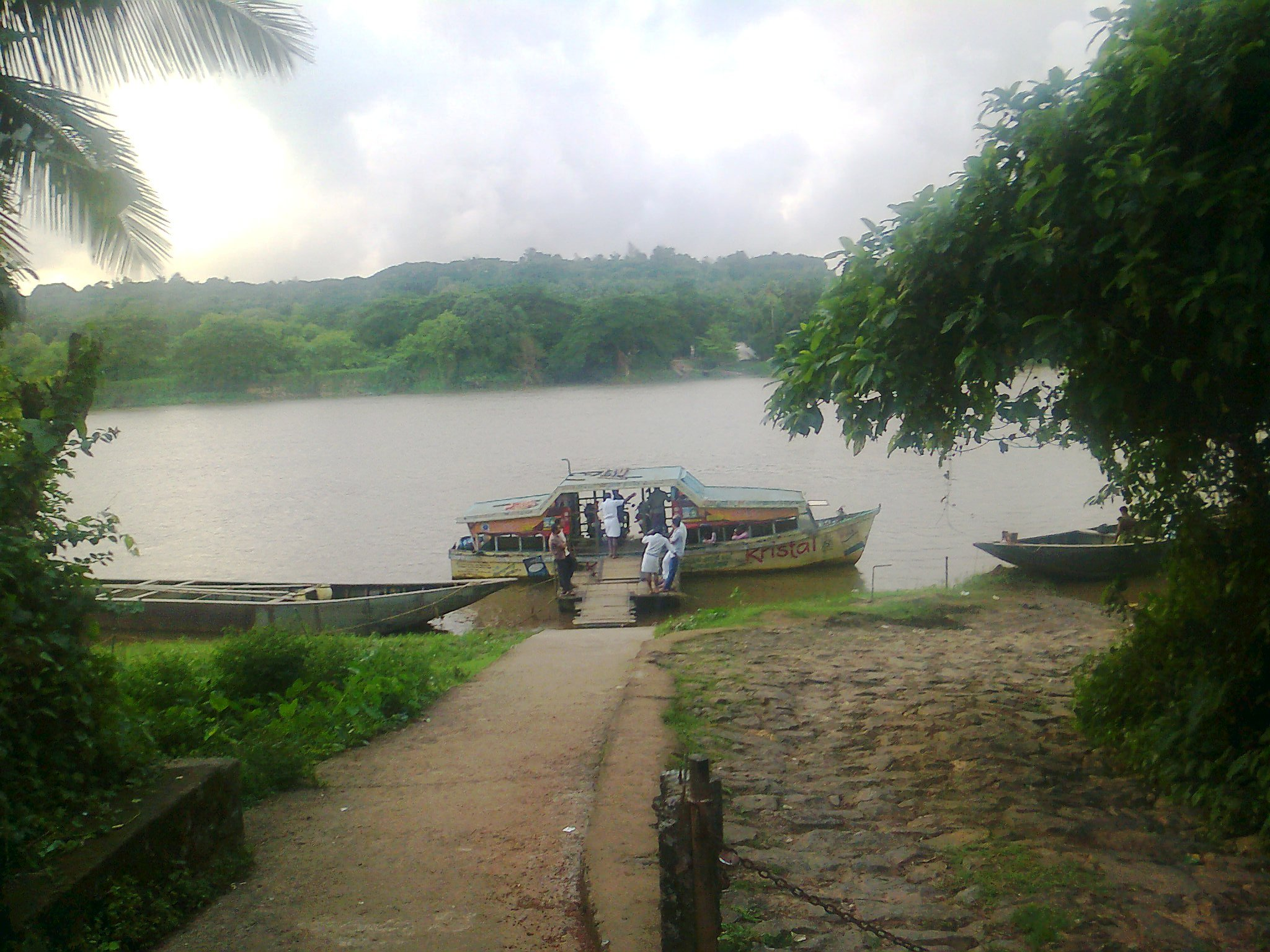 Mavoor, Kozhikode, Kerala, India.